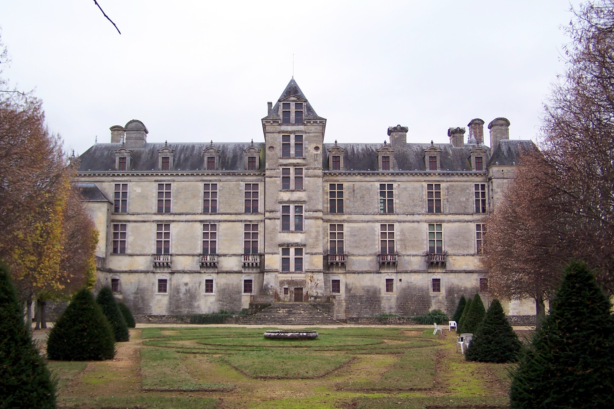 Castle of Cadillac (Gironde, France)